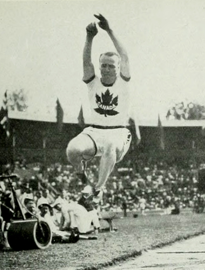 Calvin Bricker during the long jump competition at the 1912 Summer Olympics